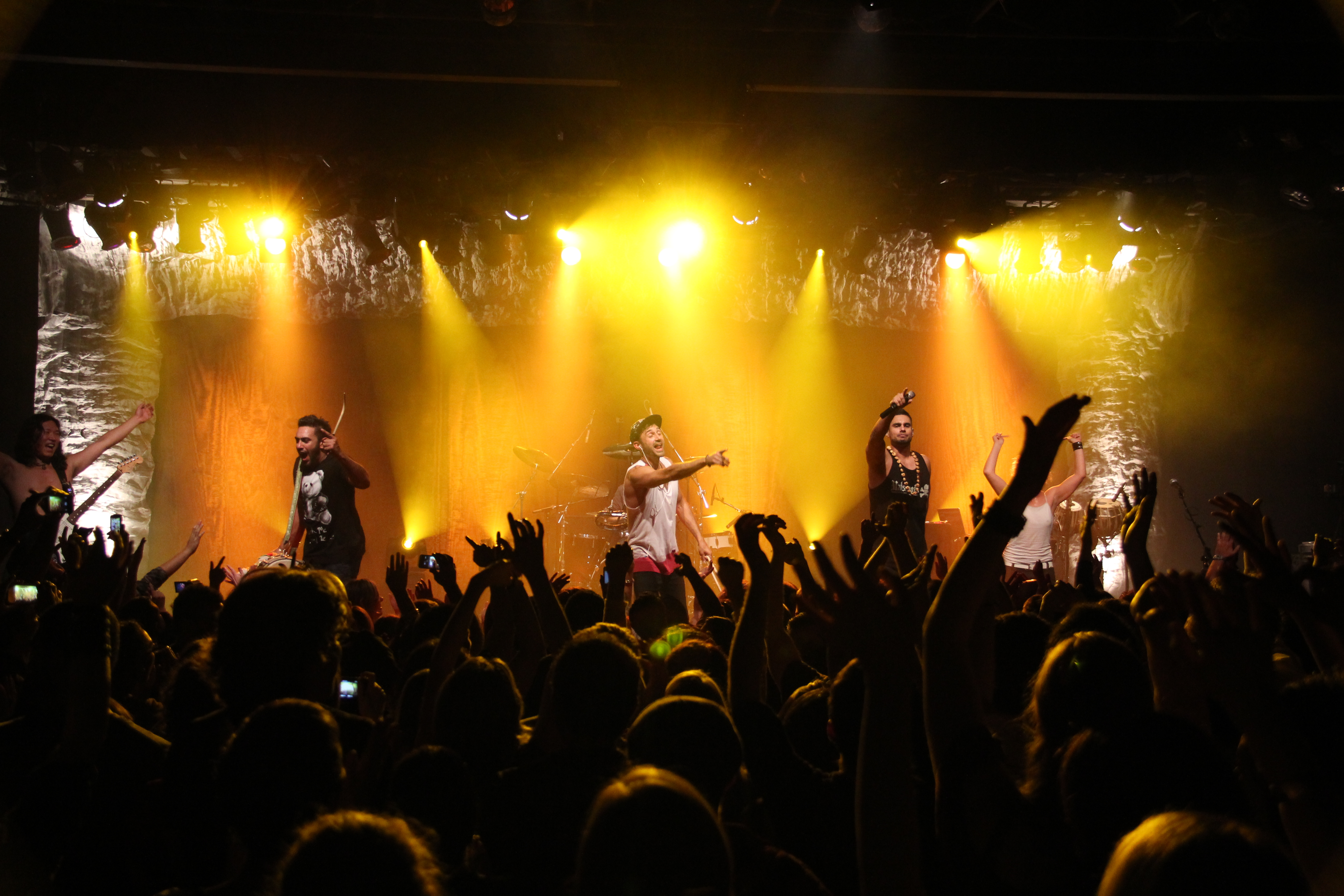 Delhi 2 Dublin performing at The Commodore Ballroom, Vancouver (2012). Photo credit: Josli Rockafella